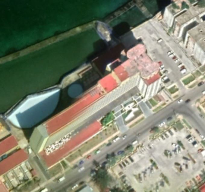 Rosita De Hornedo building, 1 st street. between 0 and 2, Miramar, Havana, Cuba.